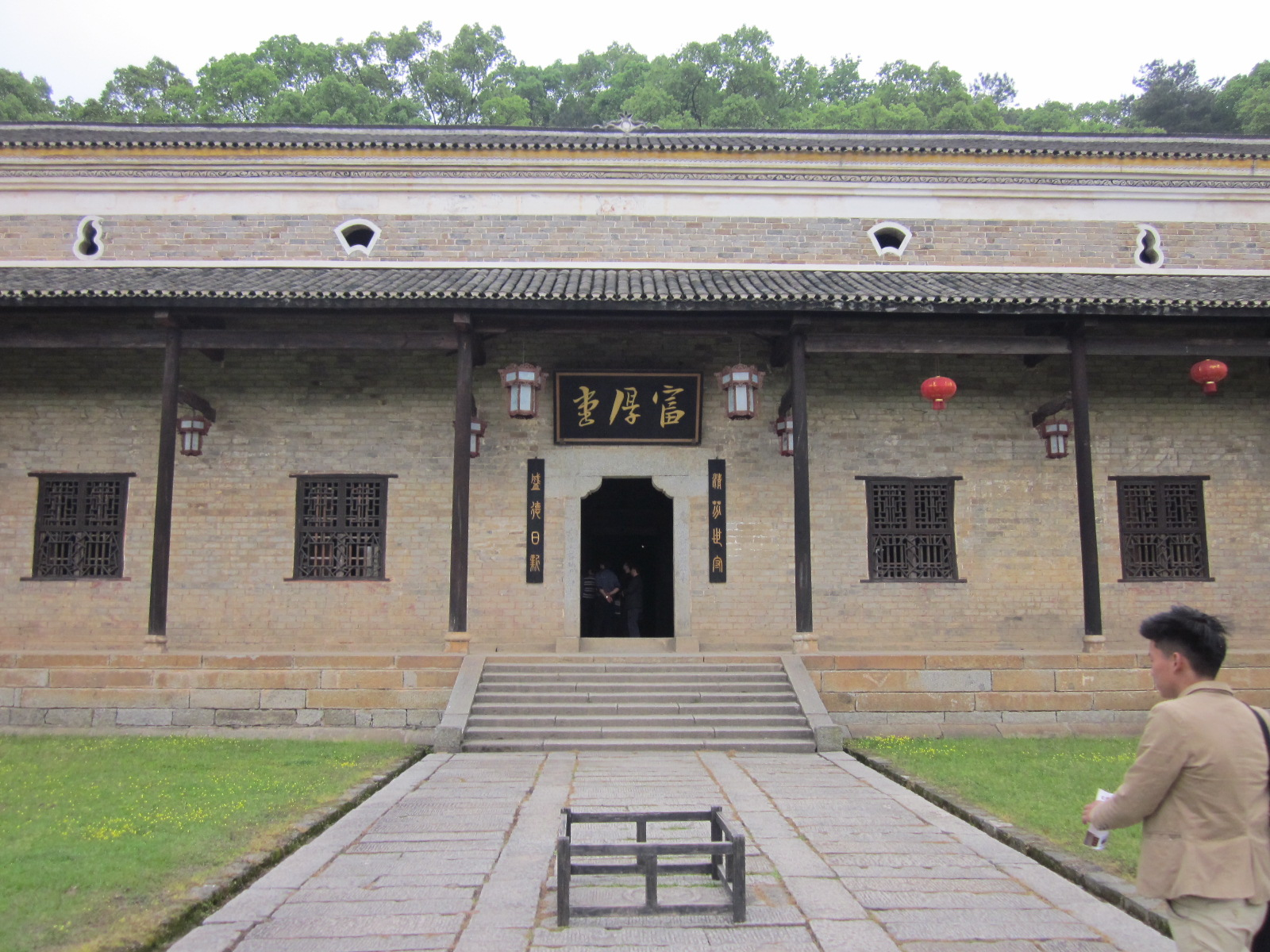 Tseng Kuo-fan's Former Residence